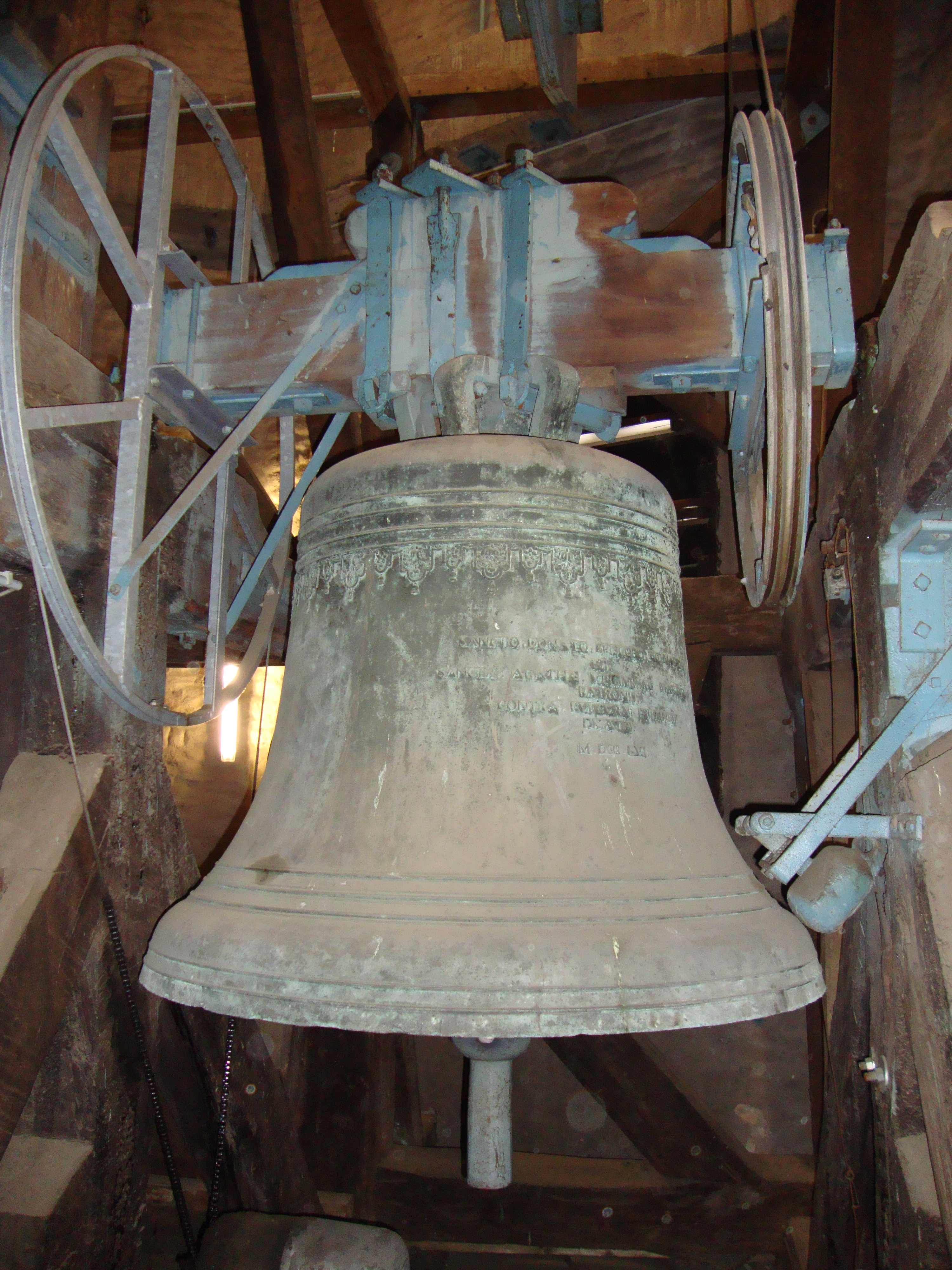 Donatusglocke (E flat) is the fourth bell of Bonner Münster.